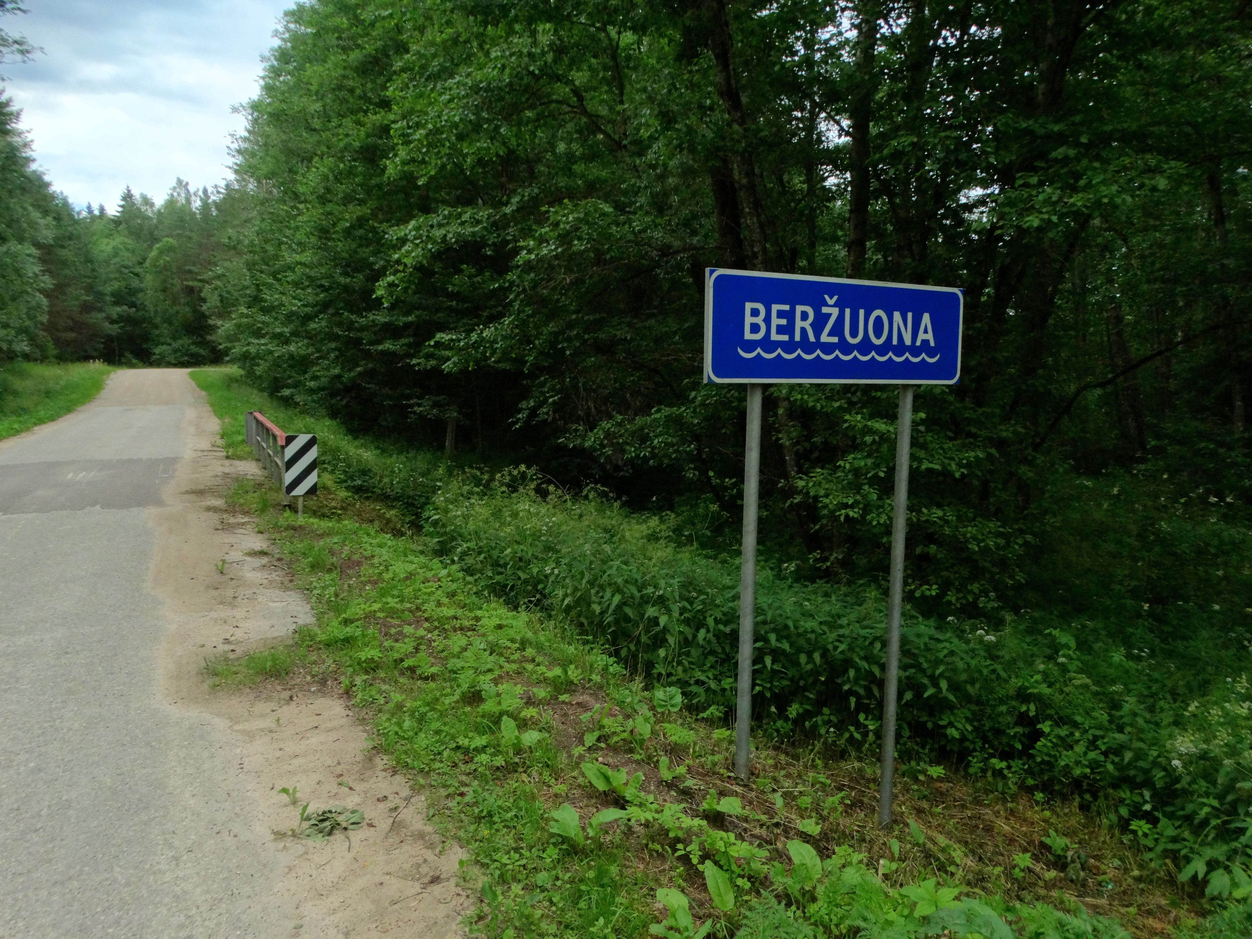 Beržuona River, Anykščiai District, Lithuania